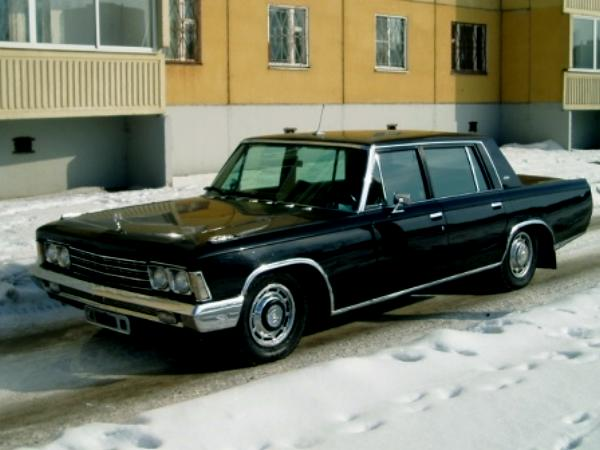 1971-1977 ZiL-117 sedan.